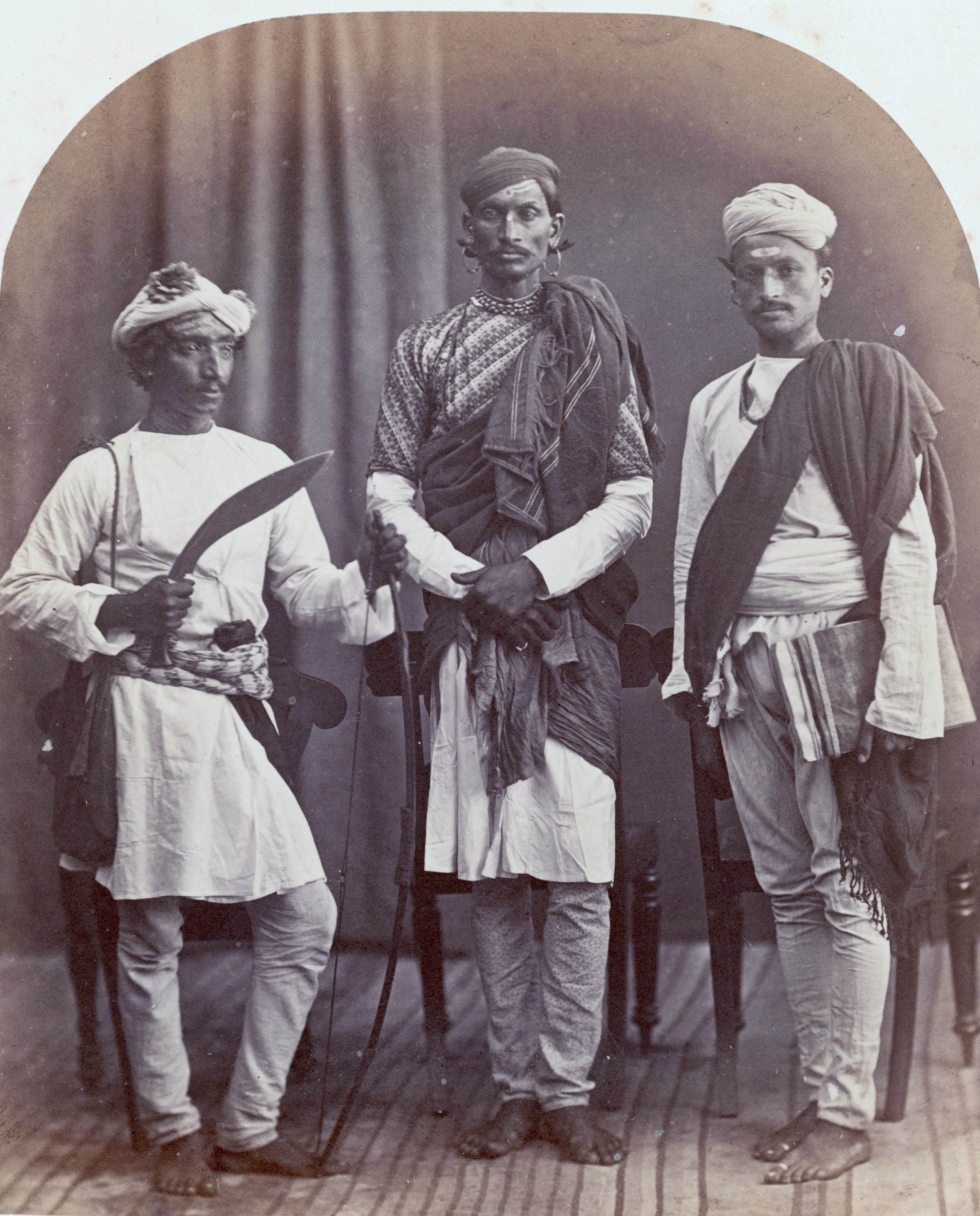 From left to right: A Gurkha, a Brahmin and a Sood (Sudra) in traditional garb in Simla. (Photo by Hulton Archive/Getty Images). Circa 1868